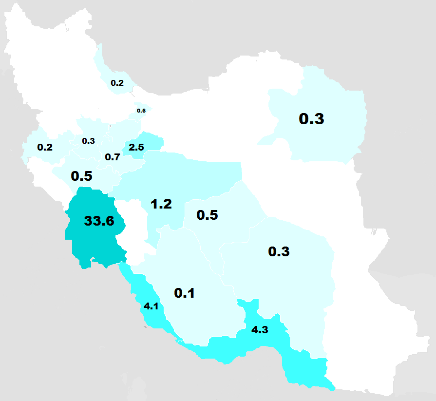 According to the survey carried out by Ministry of Culture of İran in 2010: provinces of mother tongue speaker of Iranian Arabs and their proportions among population in those provinces.